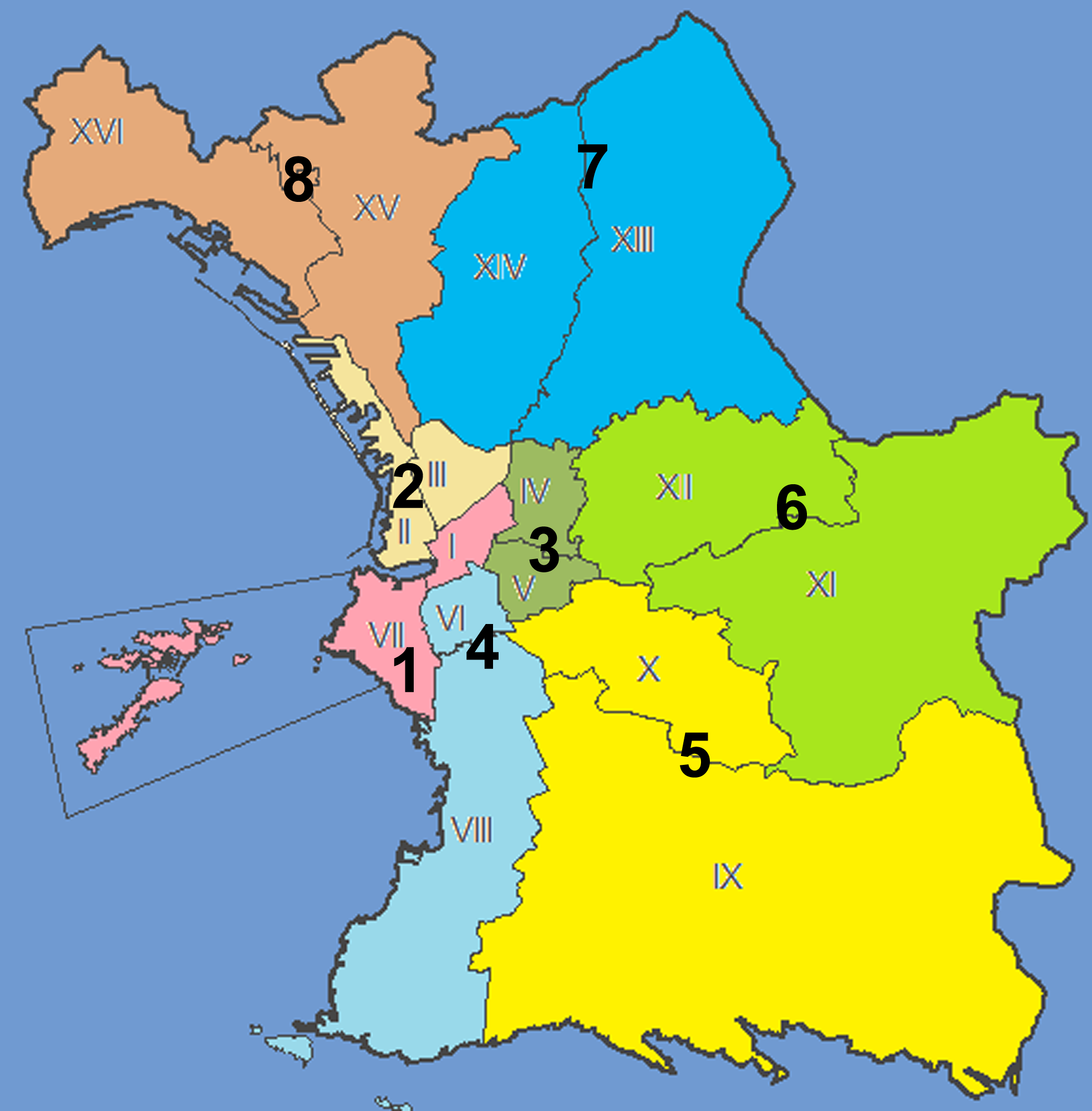 Map of the sectors of Marseille with numbering